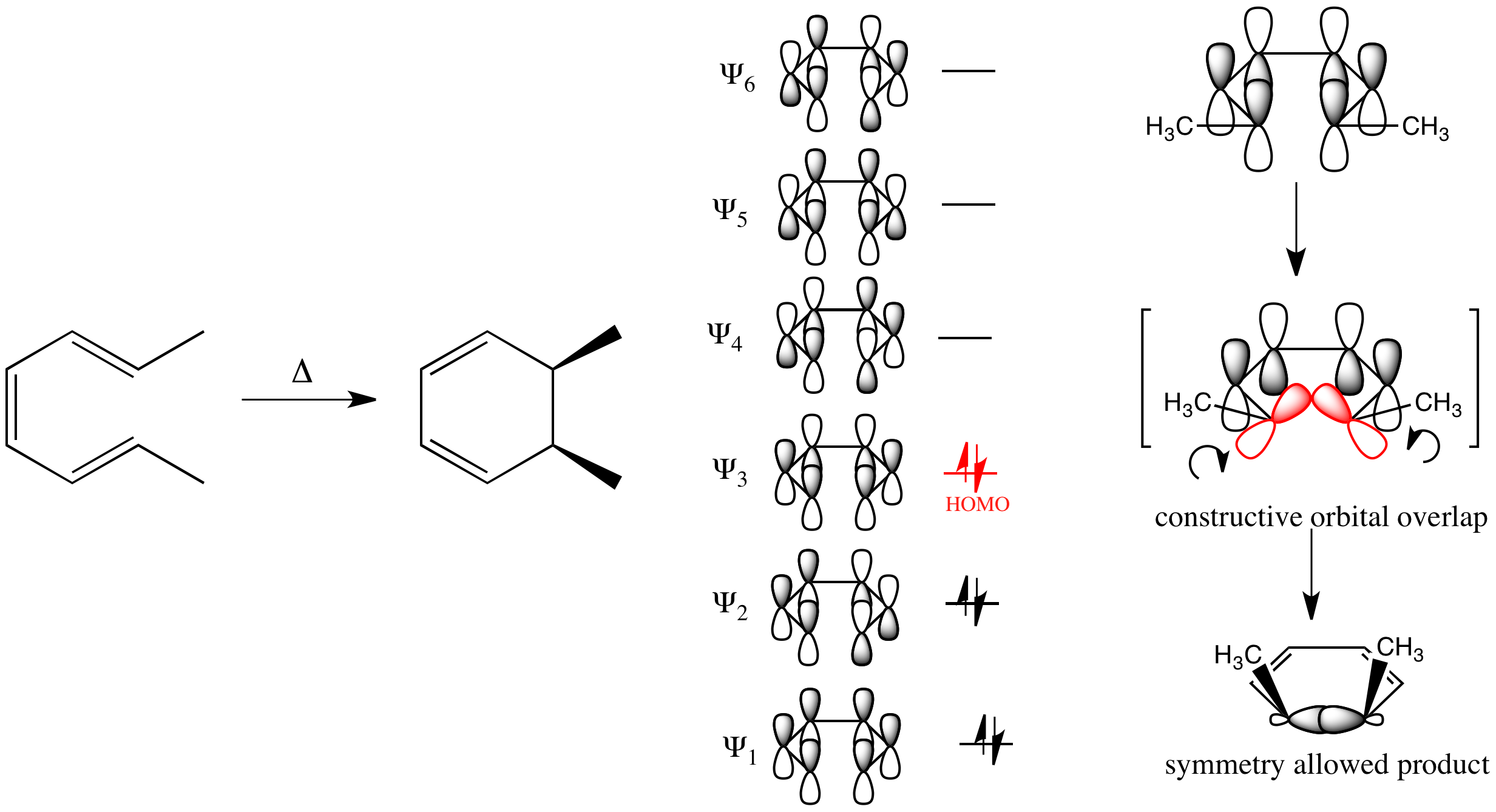 Diagram showing the FMO picture of the WH rules for 4n+2 electron electrocyclization under thermal control.